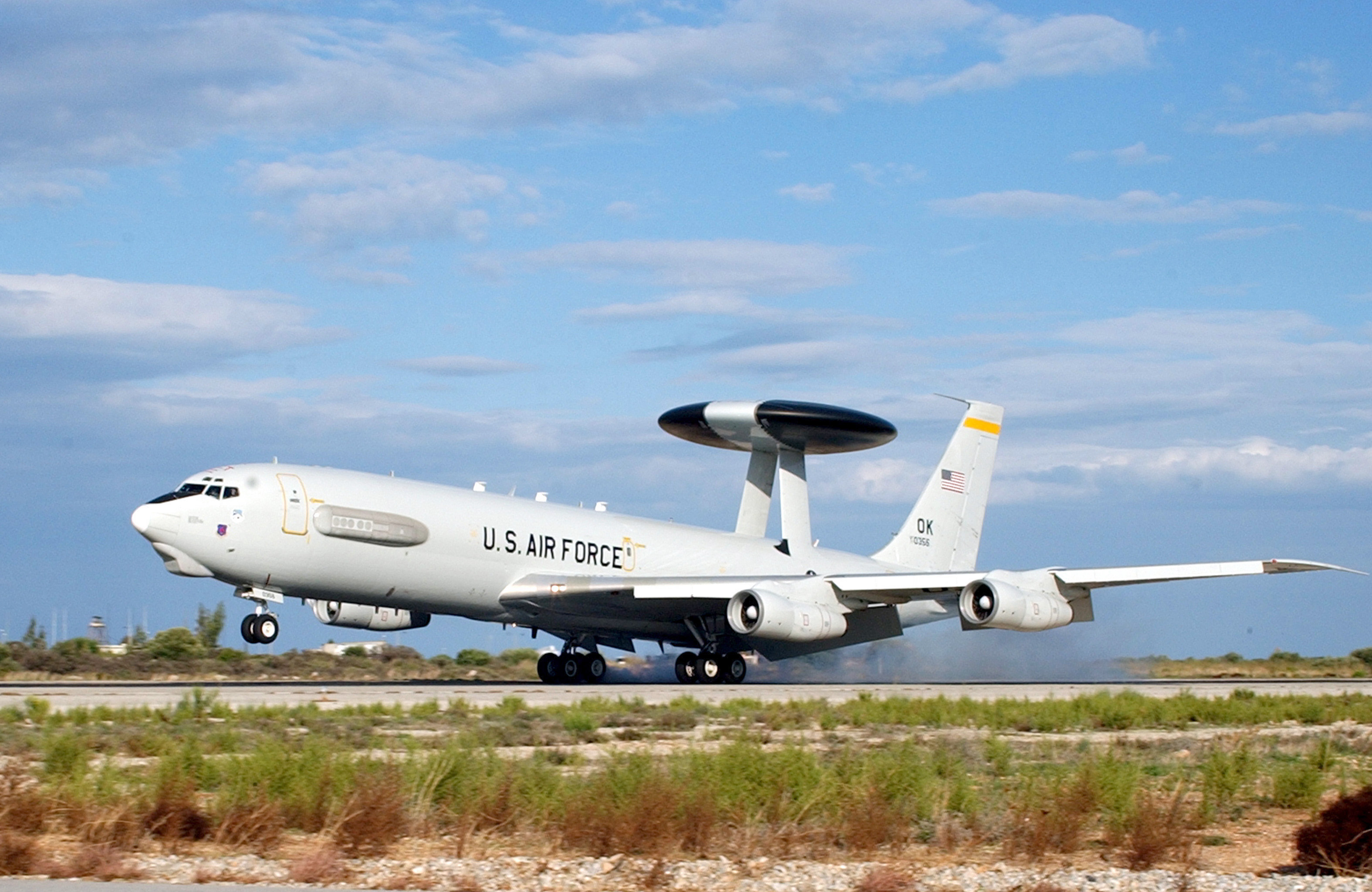 021008-N-0780F-001 Souda Bay, Crete, Greece (Oct. 8, 2002) -- A U.S. Air Force E-3 Sentry Airborne Warning and Control System (AWACS) lands at U.S. Naval Support Activity Souda Bay. AWACS provides all-weather surveillance, command, control and communications needed by commanders of U.S. and NATO air defense forces and is considered to be the premier air battle command and control aircraft in the world today. U.S. Navy photo by Paul Farley. (RELEASED)